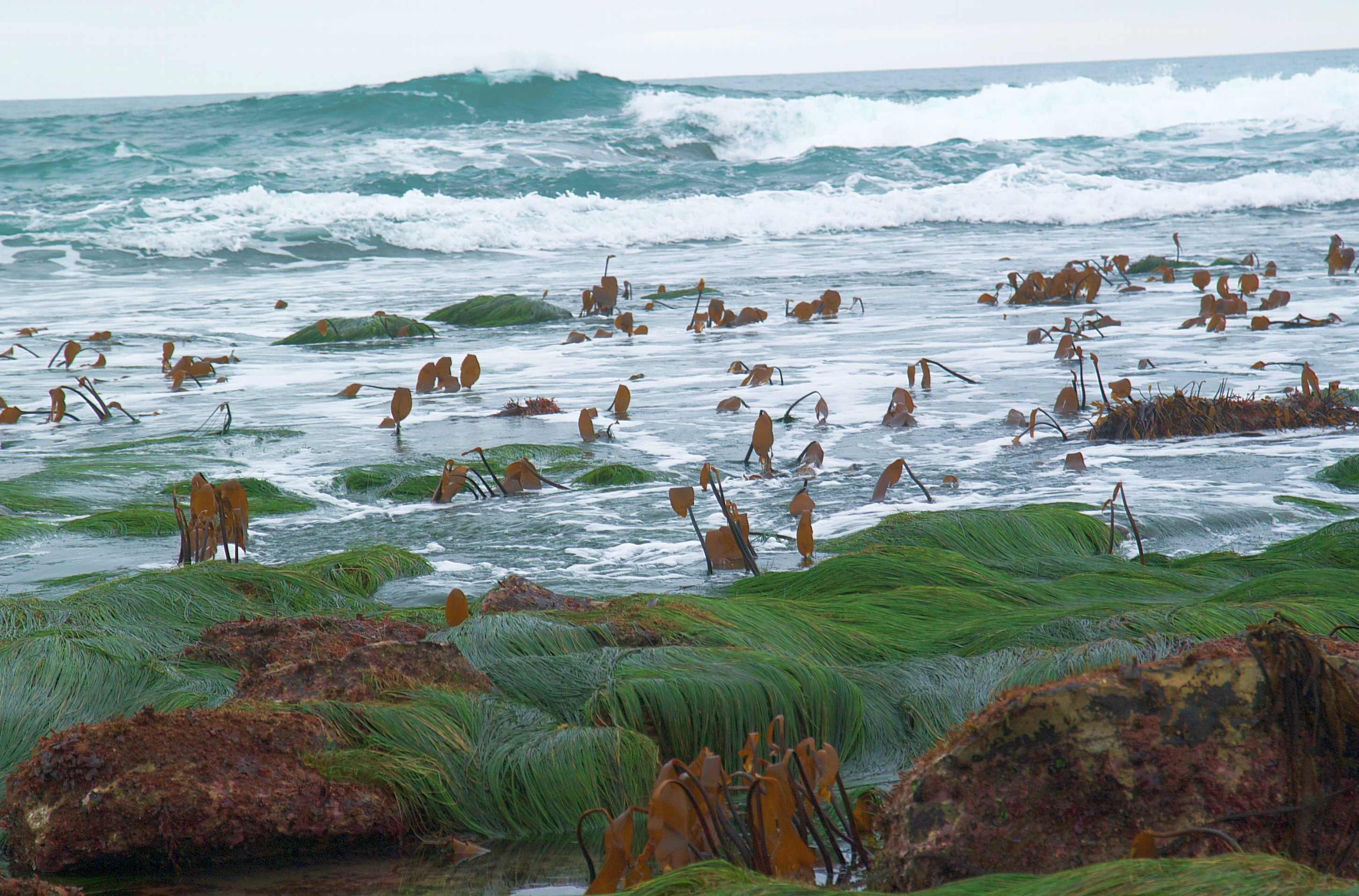 Laminaria setchellii (the erect forms) at Hazard Reef near Morro Bay, California, USA